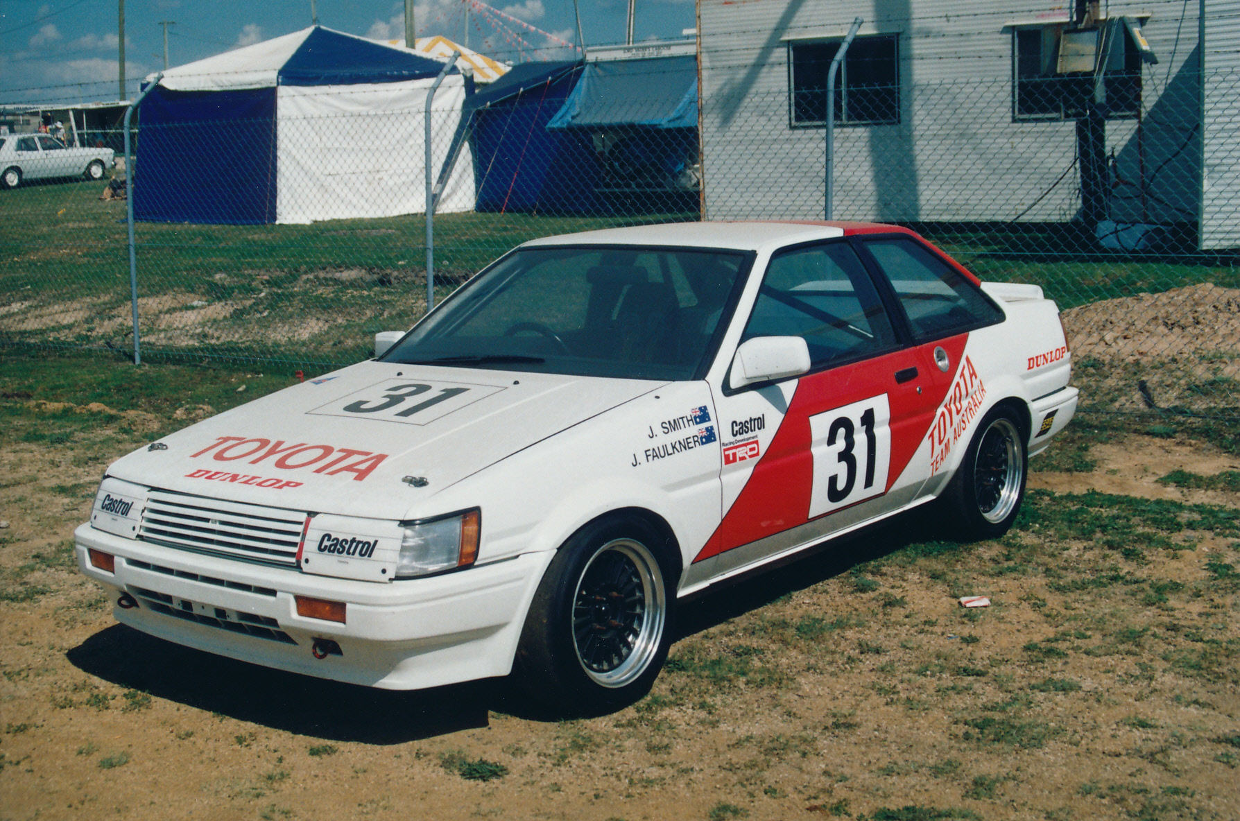 This image is a scan of a 35mm print taken at Bathurst in 1991